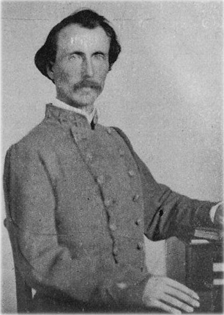 Col. Clark R. Barteau (1835-1900), 2nd/22nd Tennessee Cavalry (Barteau's)